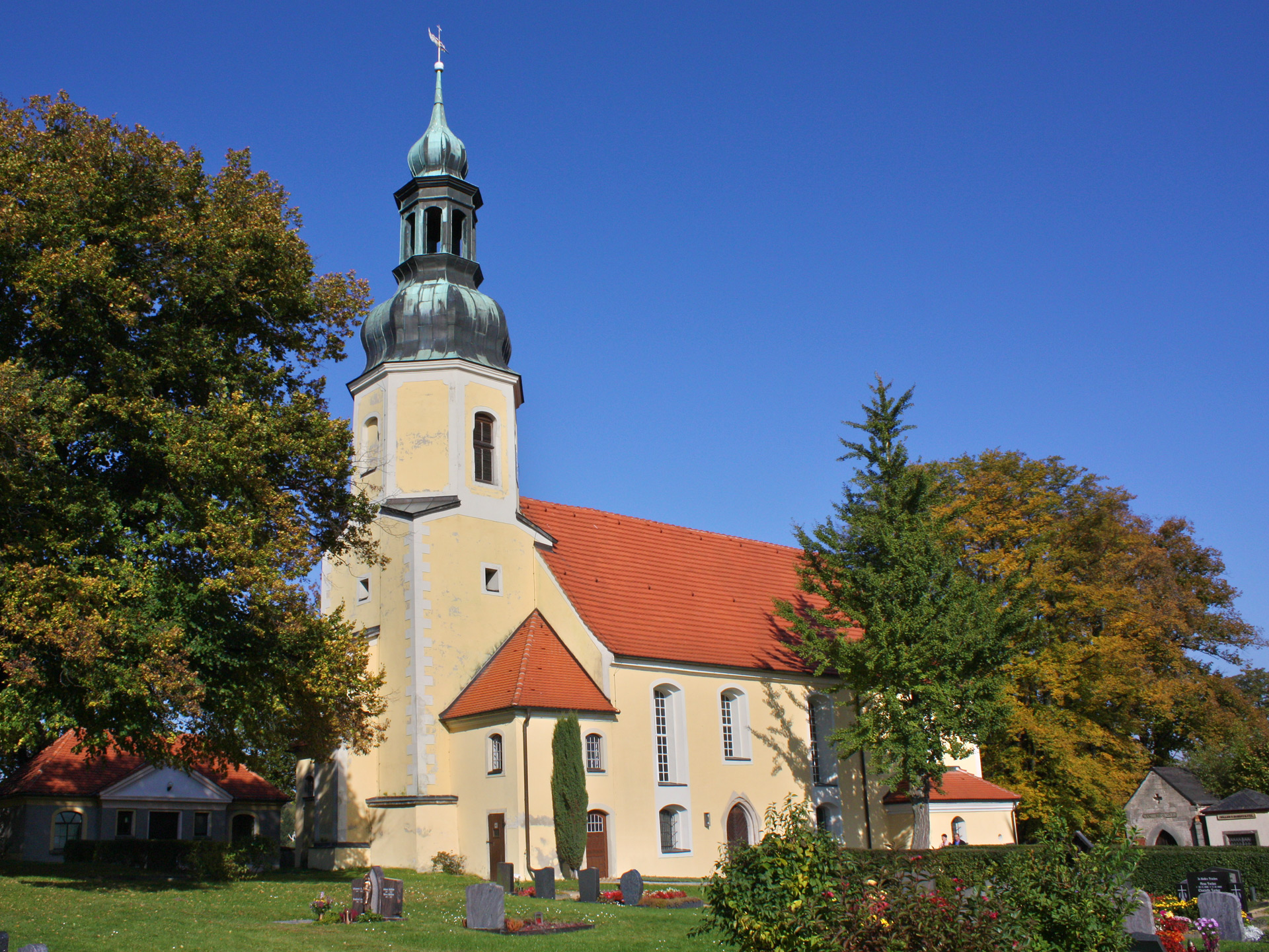 St. Mary's Church in Goldbach (Bischofswerda) in the district of Bautzen in Saxony, Germany.